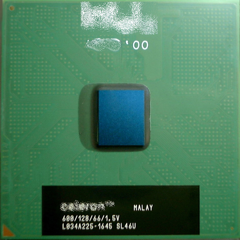 Celeron Coppermine 128 600MHz I worked to hide Celeron TM and Intel R in this photograph.